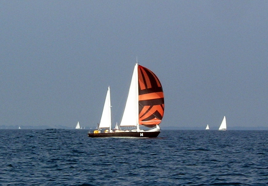 Description =Pen Duick II d'Eric Tabarly dans la baie de Quiberon Source =Photo taken by Remi Jouan Date =Aout 2006 Author =Remi Jouan